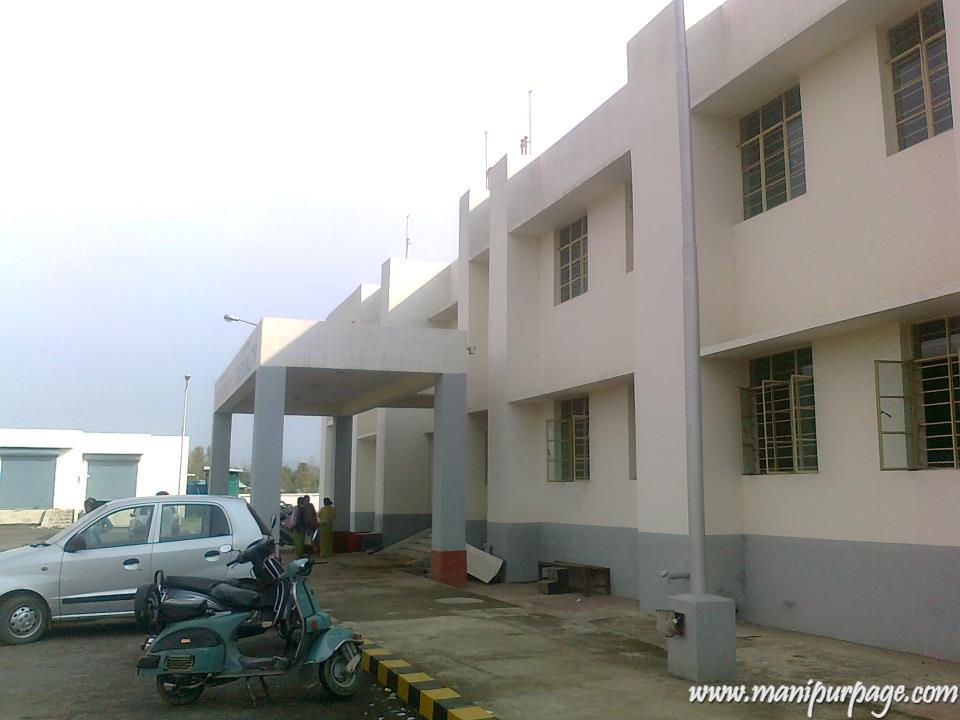 district hptl kbk